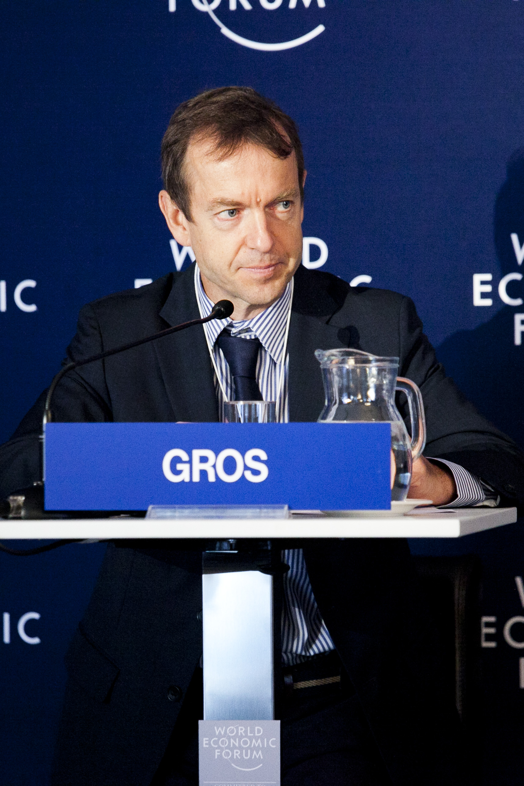 VIENNA/AUSTRIA, 8JUN11 - Daniel Gros, Director Centre for European Policy Studies (CEPS), Belgium at the World Economic Forum on Europe and Central Asia held in Vienna, Austria, June 8, 2011. Copyright World Economic Forum ( by Heinz Tesarek